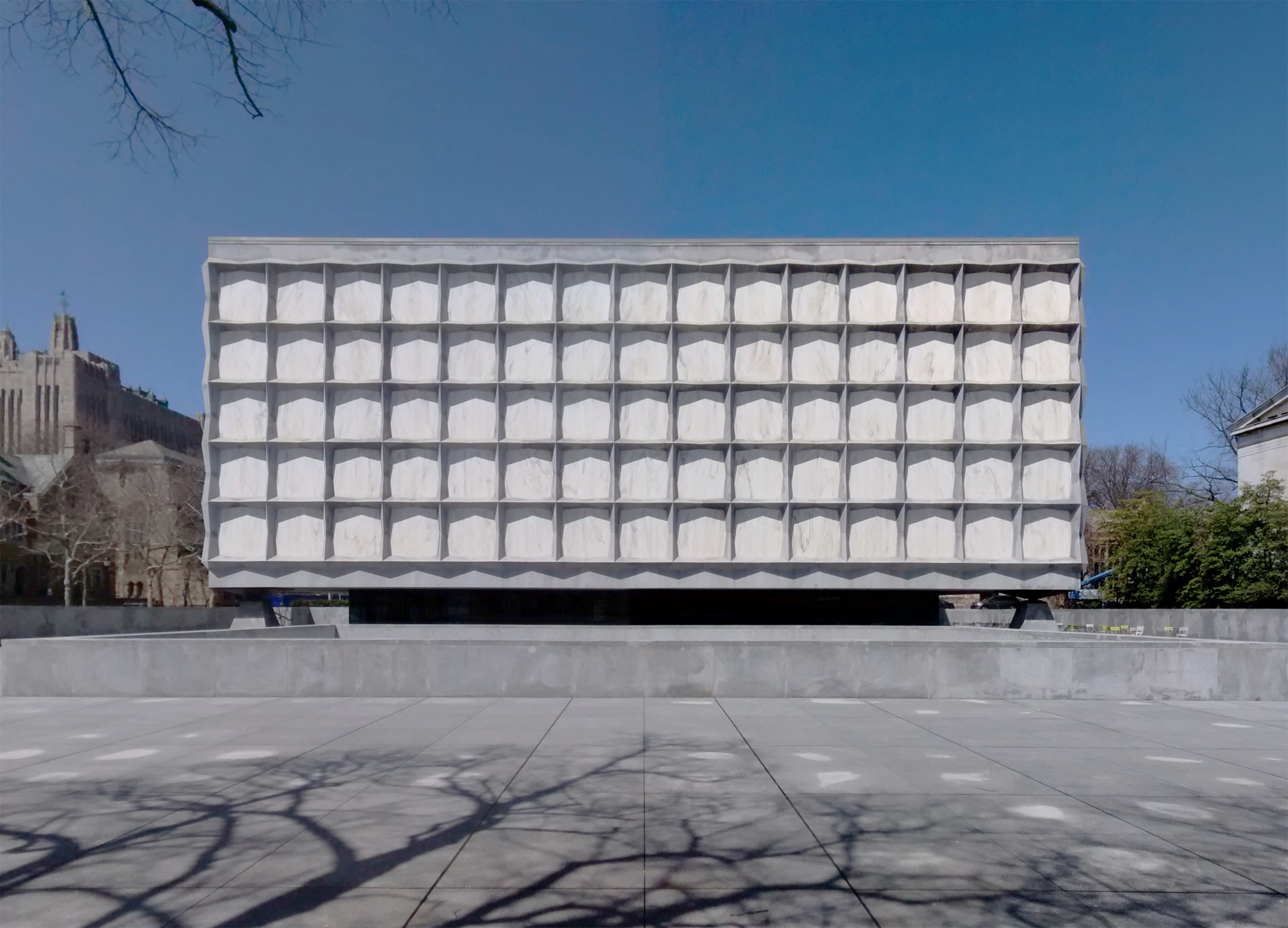 Beinecke Rare Book & Manuscript Library, Gordon Bunshaft of Skidmore, Owings & Merrill, Yale University Hewitt Quadrangle, New Haven, Connecticut, Apr. 2014